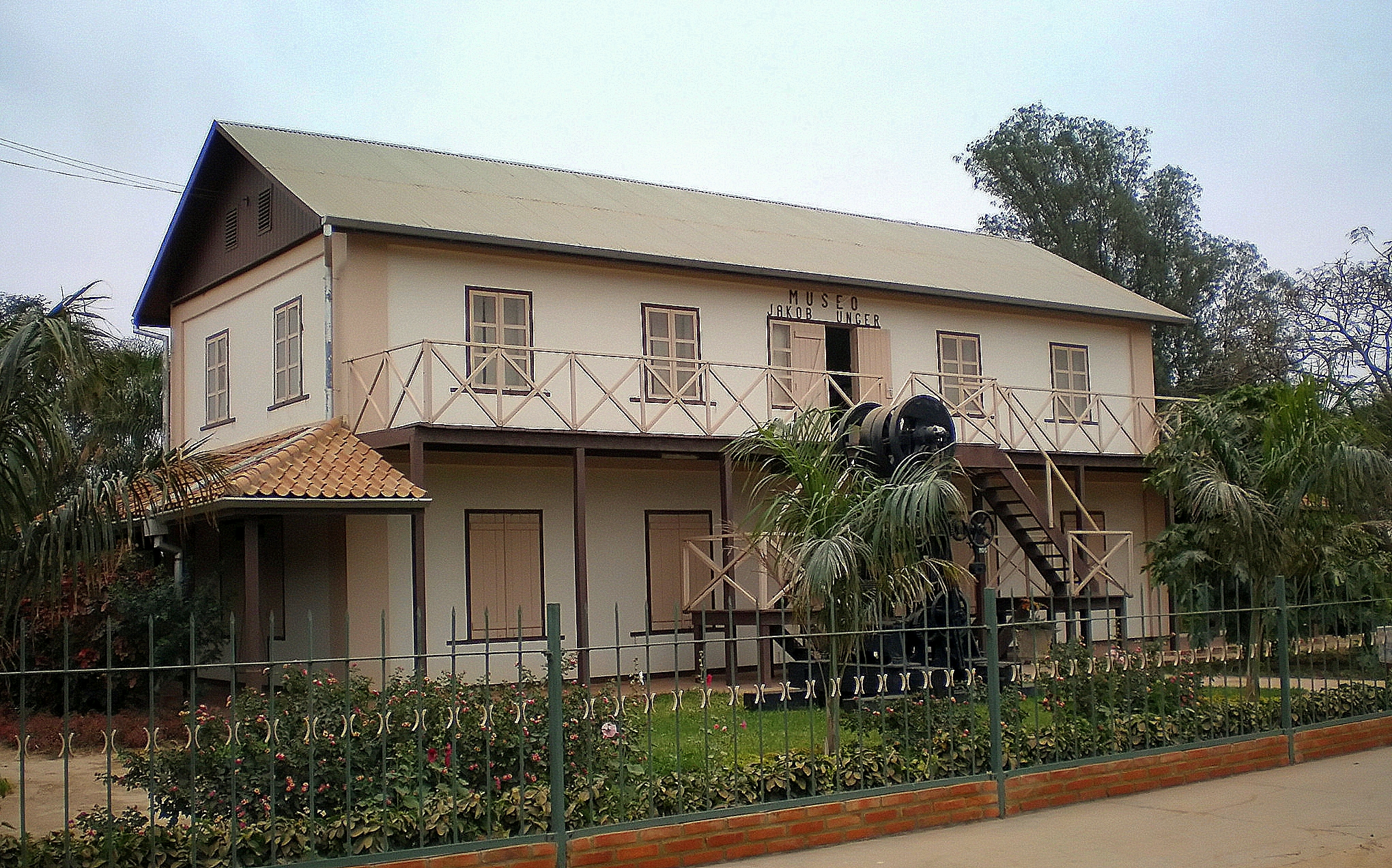 Jakob Unger Museum in Filadelfia, Paraguay.